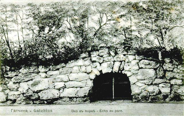 "Echo" grotto, pre-1917 postcard